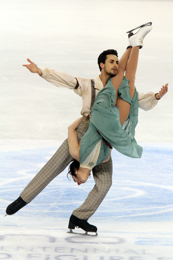 Federica Faiella and Massimo Scali at the the 2010 World Championships.